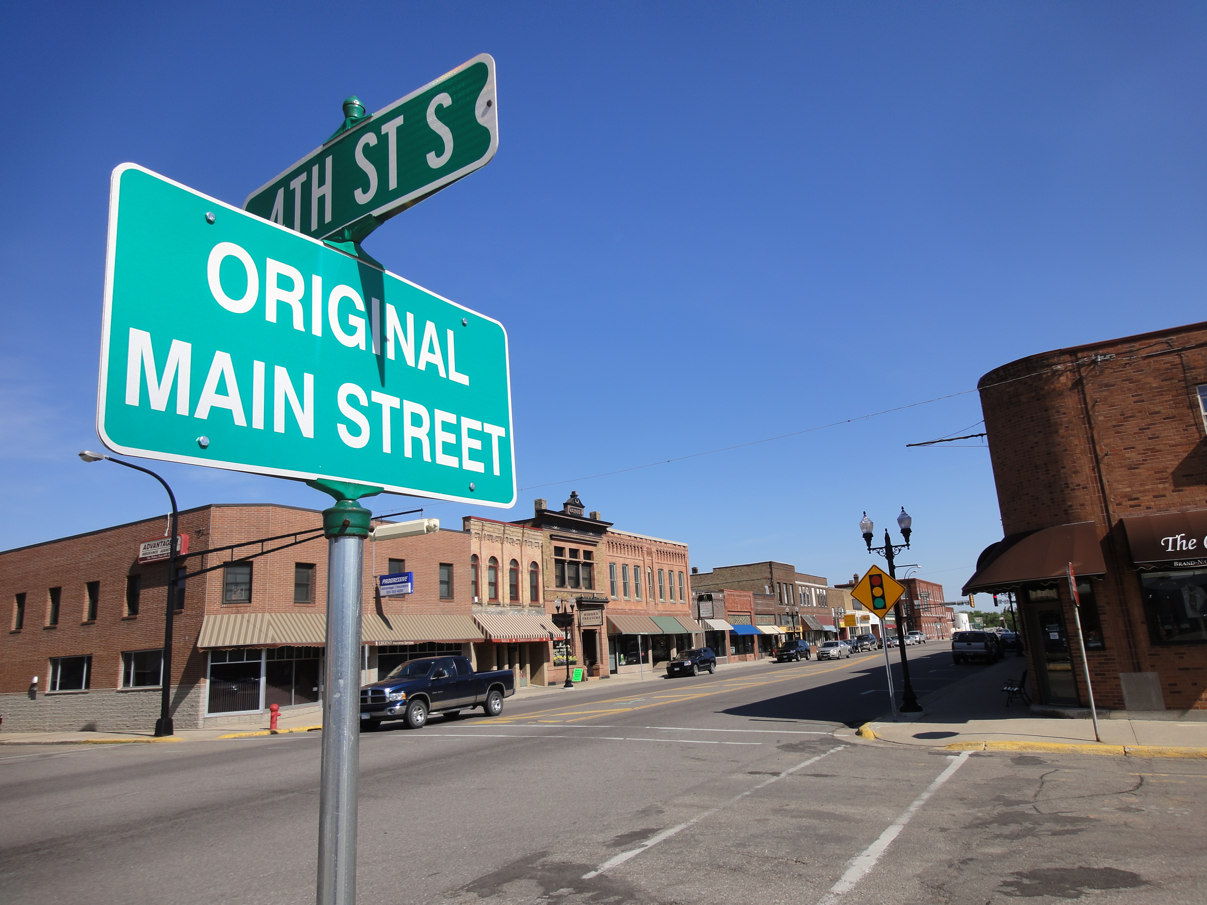 A view of Main Street in Sauk Centre, MN, where it goes through downtown.